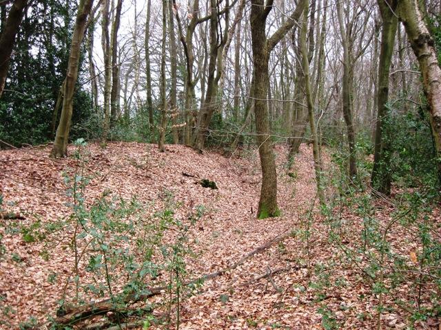 Grim's Ditch in High Scrubs Wood Grim's Ditch ran (with breaks) for many miles along this part of the Chilterns. In many places, such as here, it only survives as a pronounced hedge bank and ditch. It is believed to be a late Bronze age boundary marker. Grim is an old name for the devil.